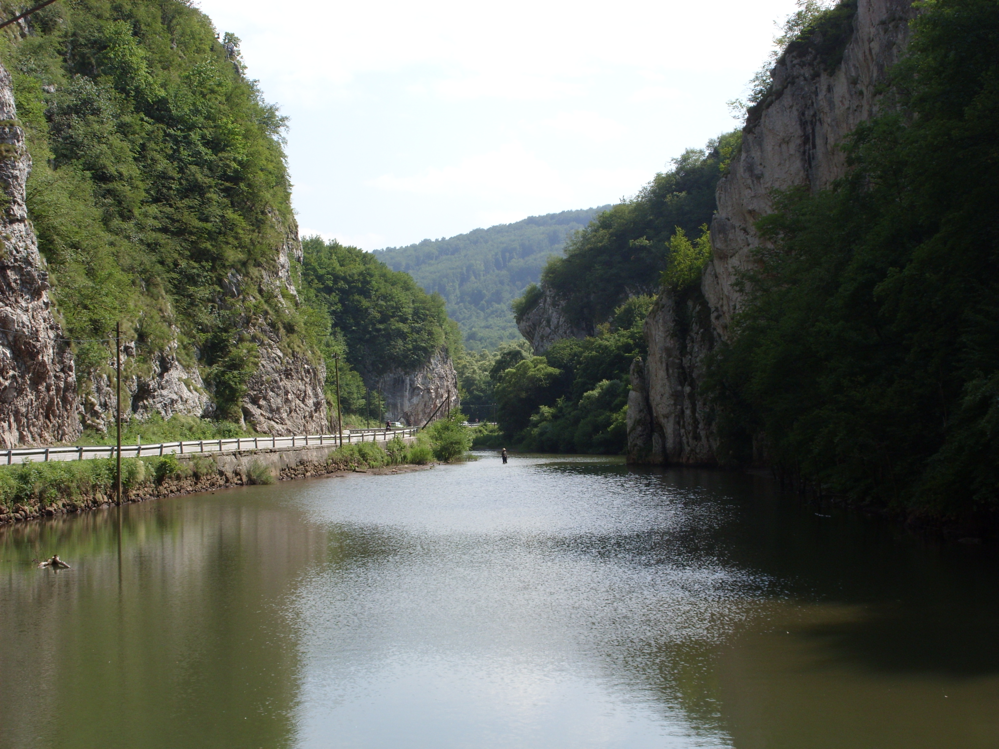 In the Željeznica valley southeast of Sarajevo, Bosnia and Herzegovina.